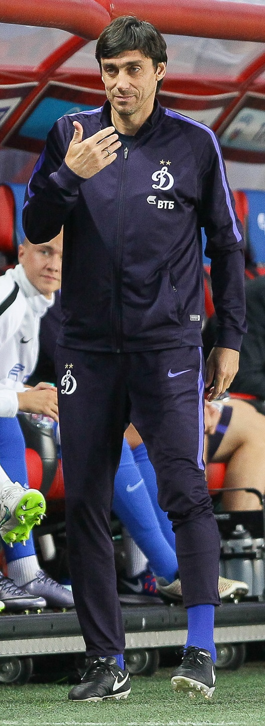 Yuri Kovtun working as an assistant coach for FC Dynamo Moscow in a game against FC Luch-Energiya Vladivostok.